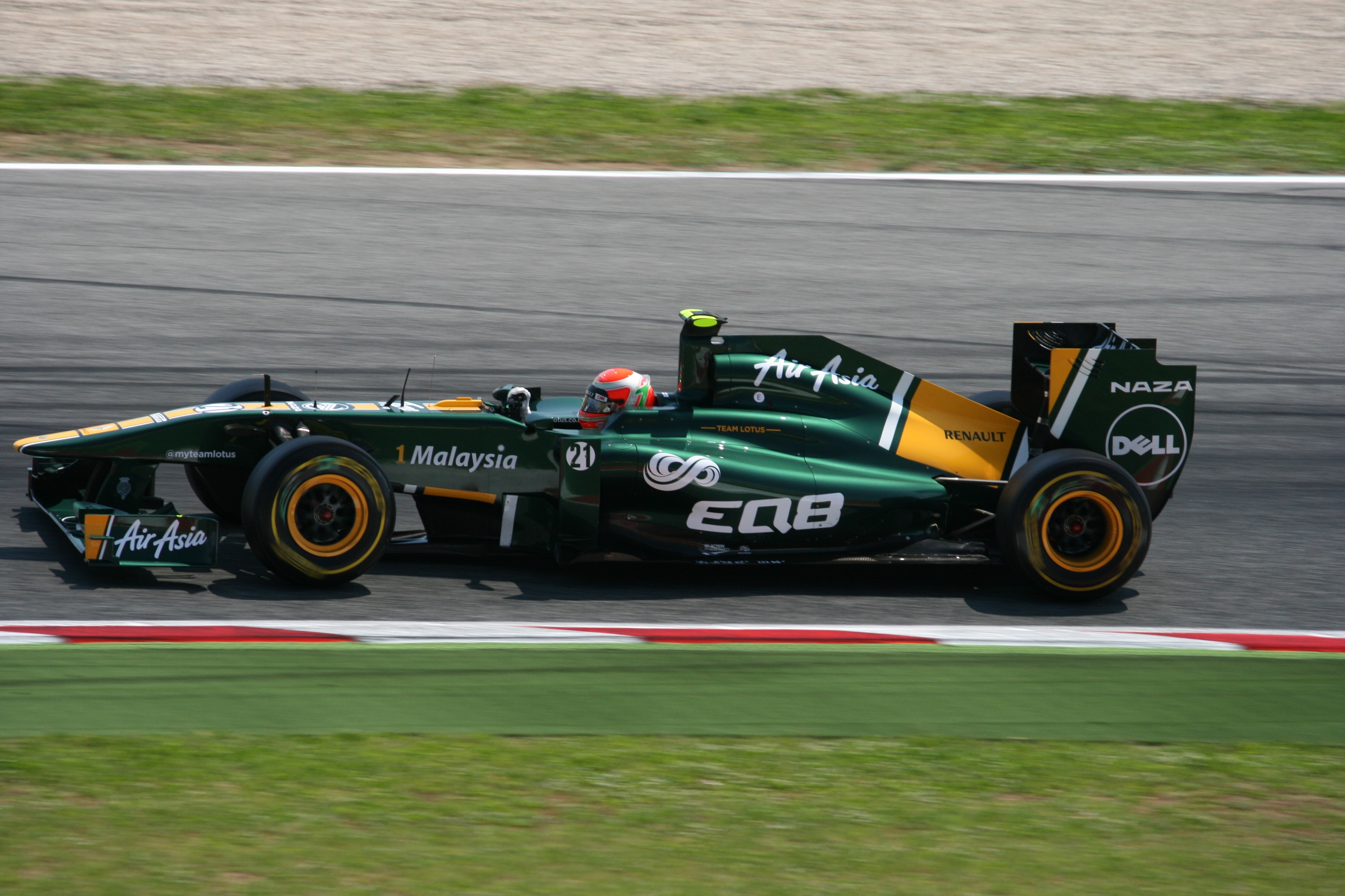 Jarno Trulli driving for Team Lotus at the 2011 Spanish Grand Prix.